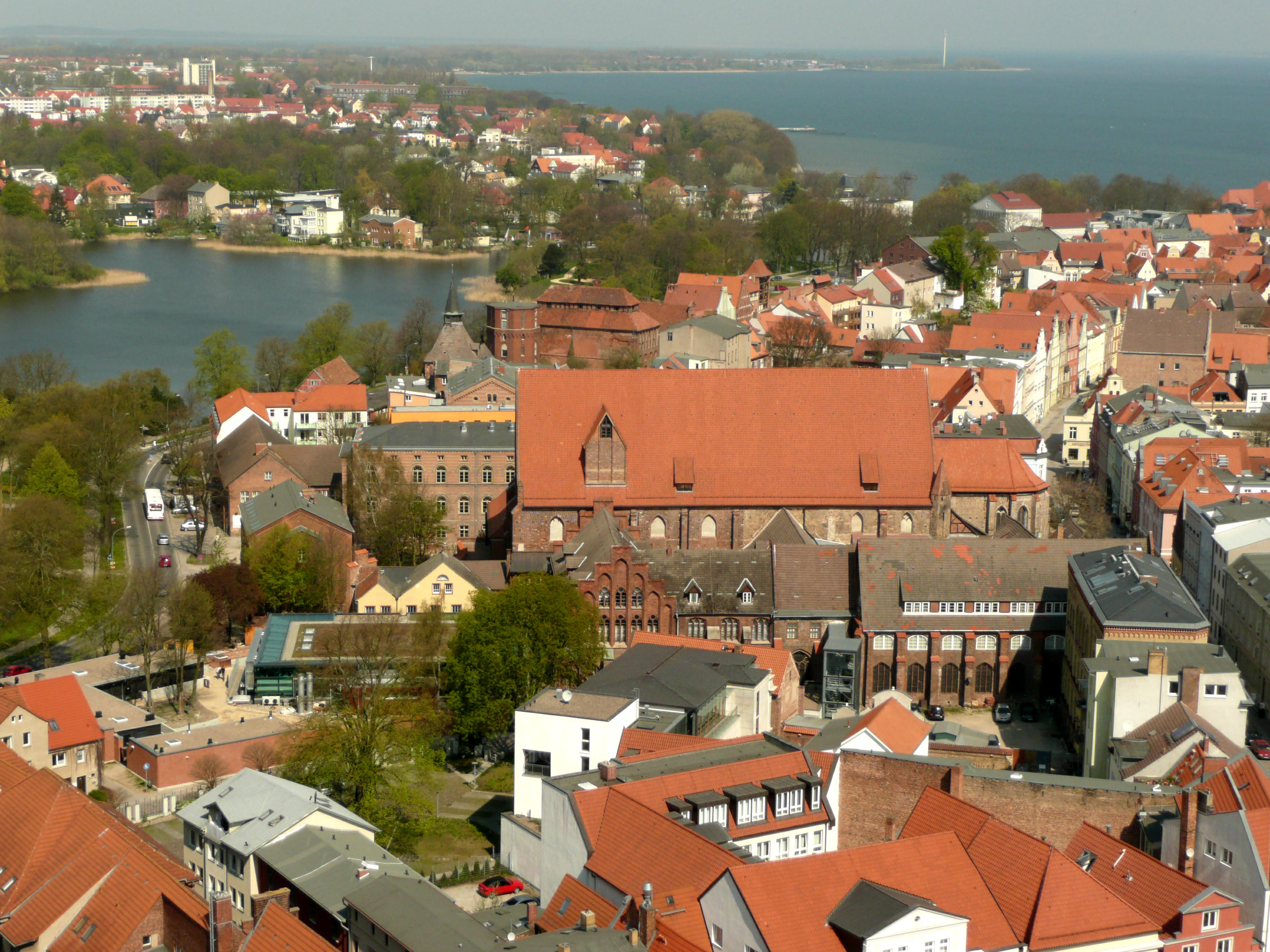 Stralsund: view to the sea museum (center).